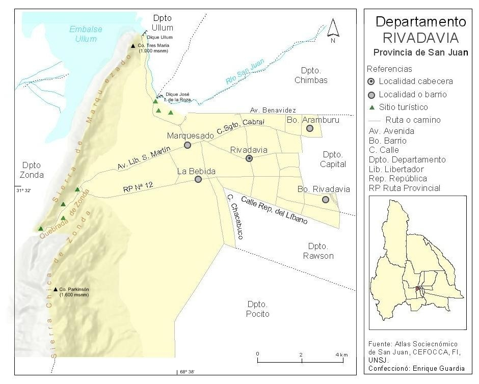 Maps of Rivadavia Department, San Juan Province, Argentina